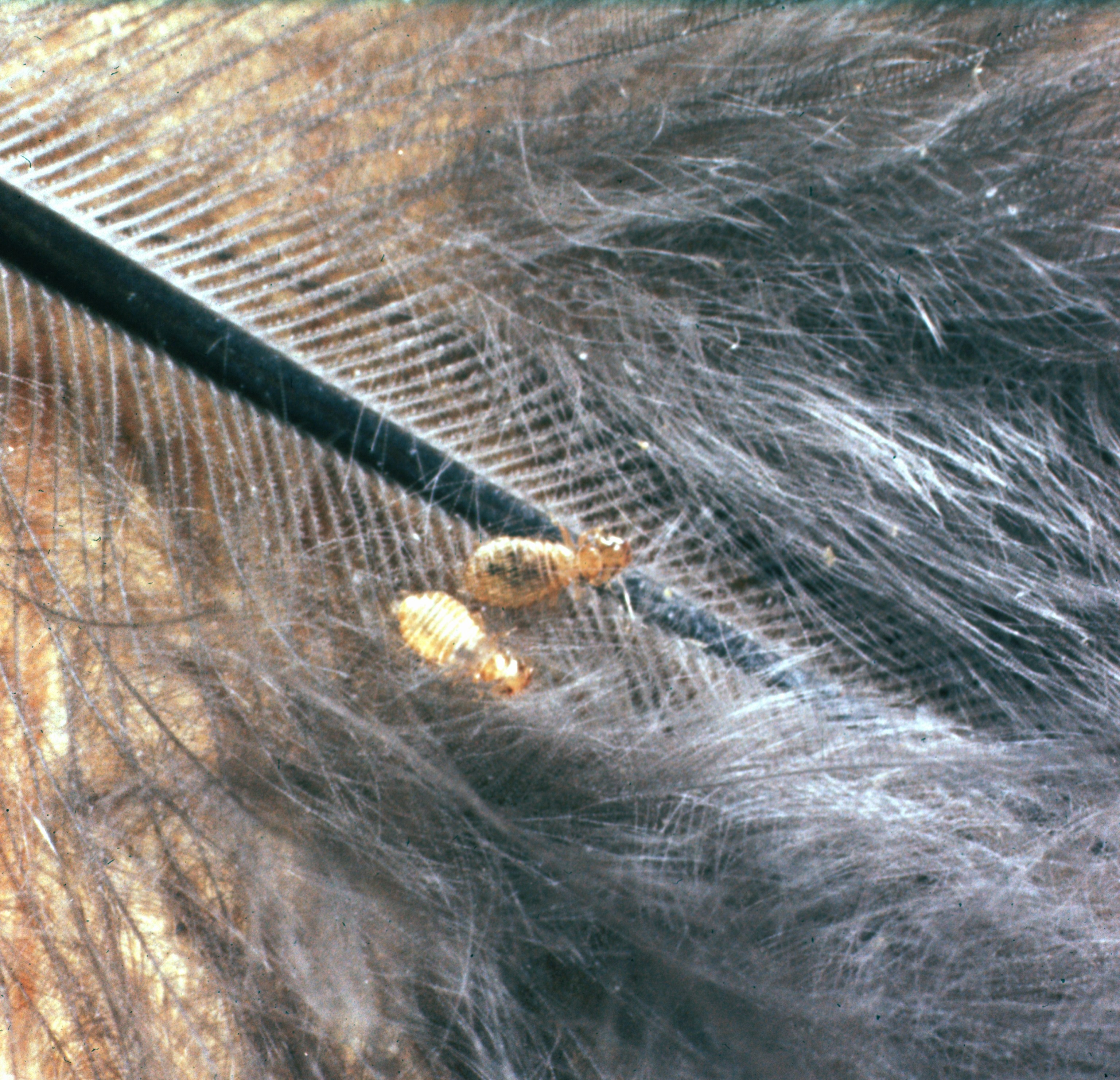 Menacanthus stramineus nymphs on a chicken feather.